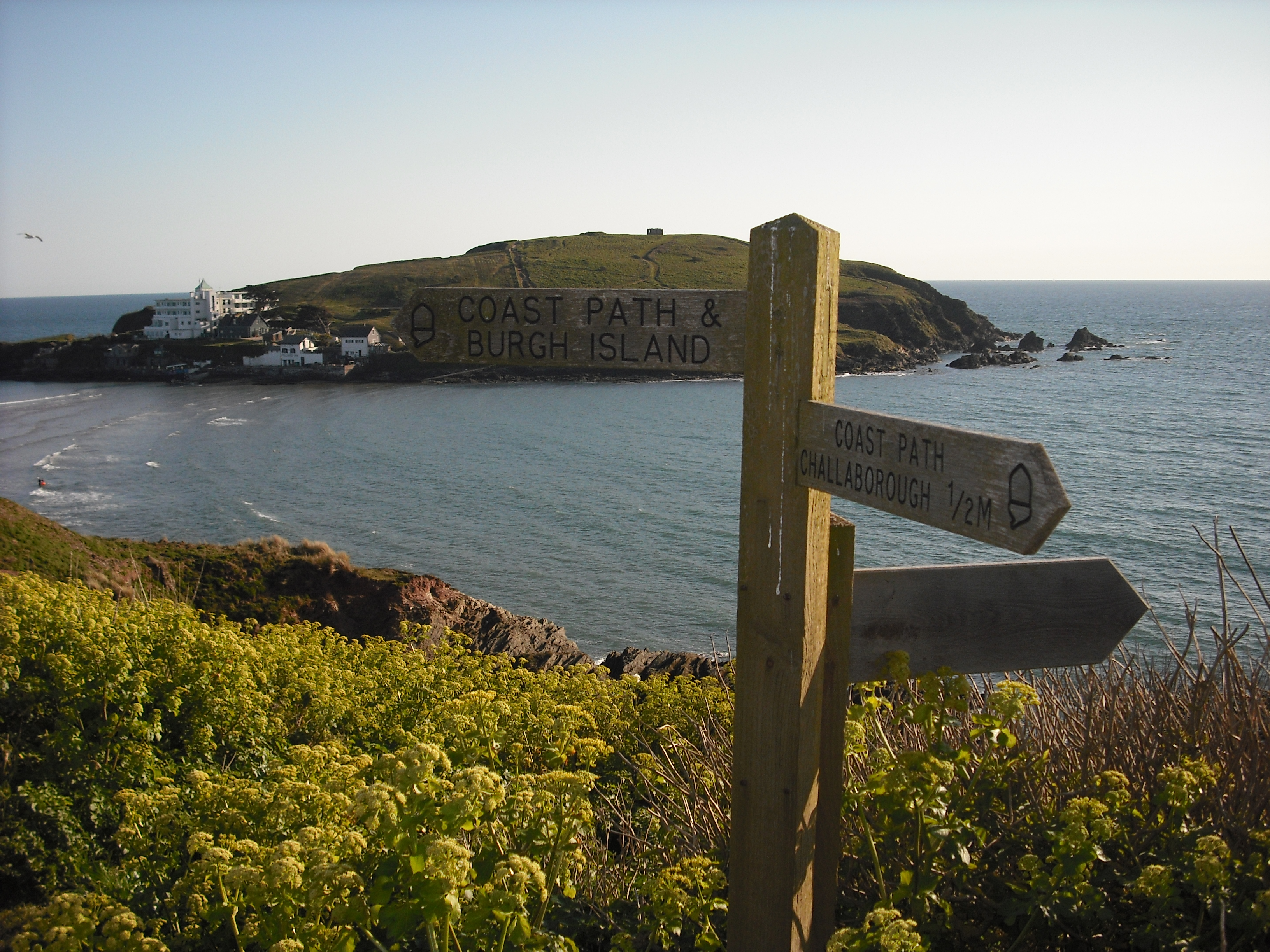 A South West Coast Path at Bigbury-on-Sea with Burgh Island in the background.